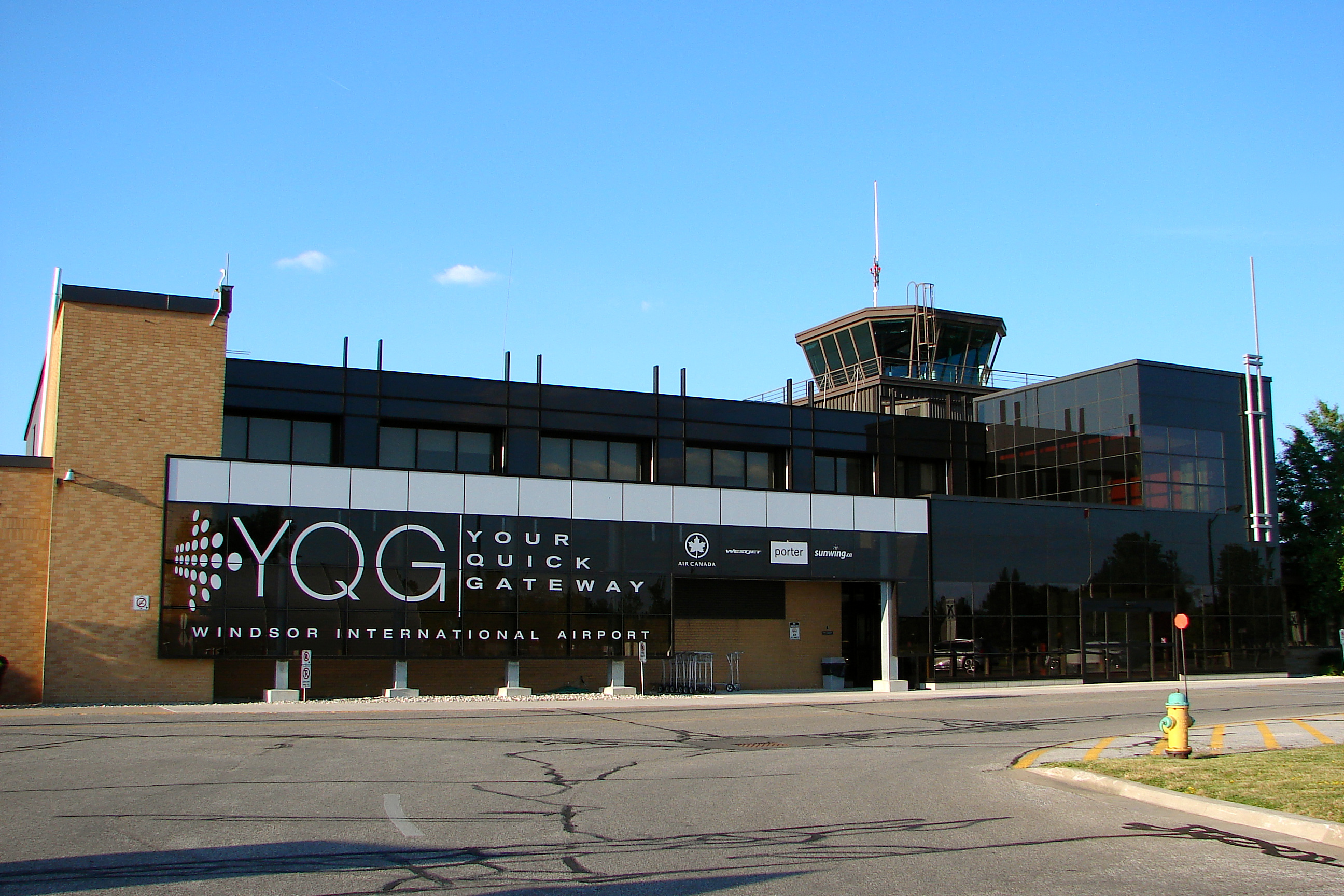 Windsor Airport, Ontario, Canada